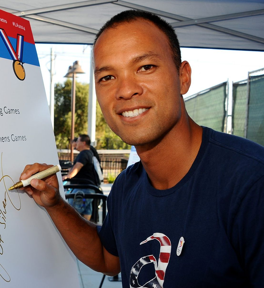 Bryan Clay at Azusa Pacific University/Citrus College station at an appearance for the Los Angeles County Metropolitan Transportation Authority.